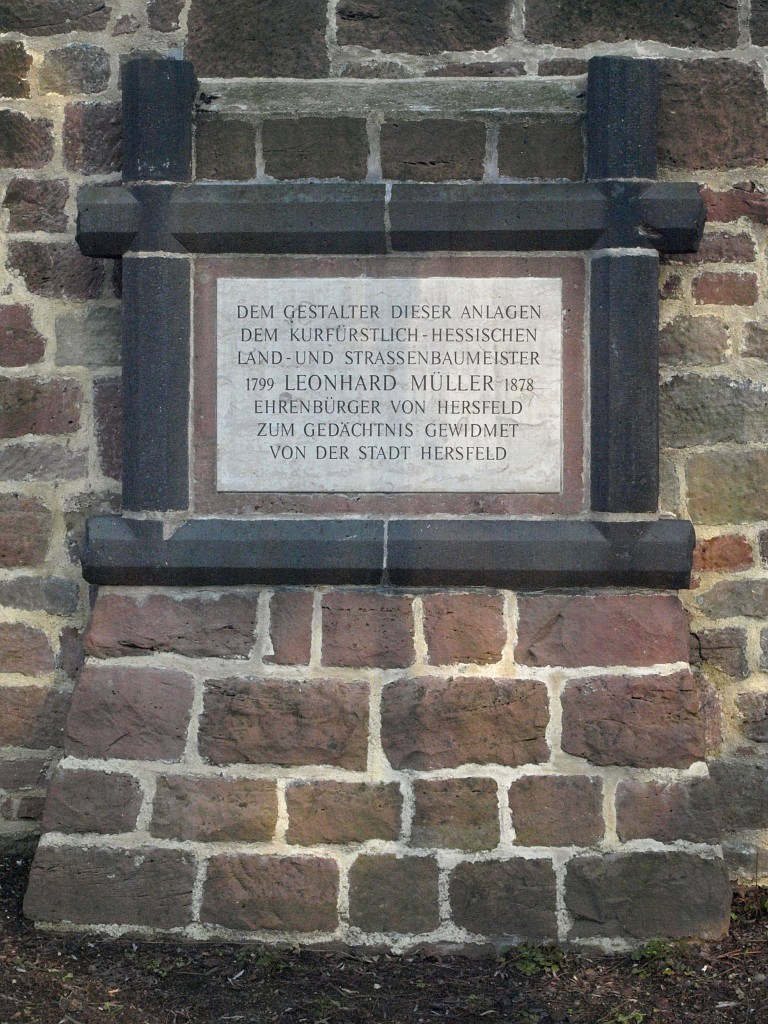 Memorial to Leonhard Müller at the town wall, a hessian master-builder (1799-1878)